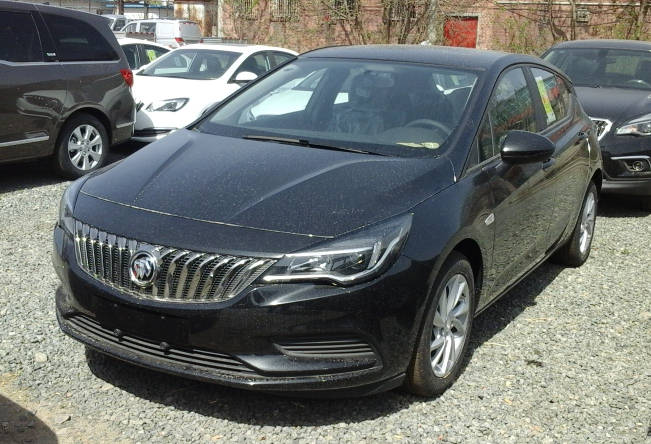 Buick Verano II hatch photographed in Beijing, China.